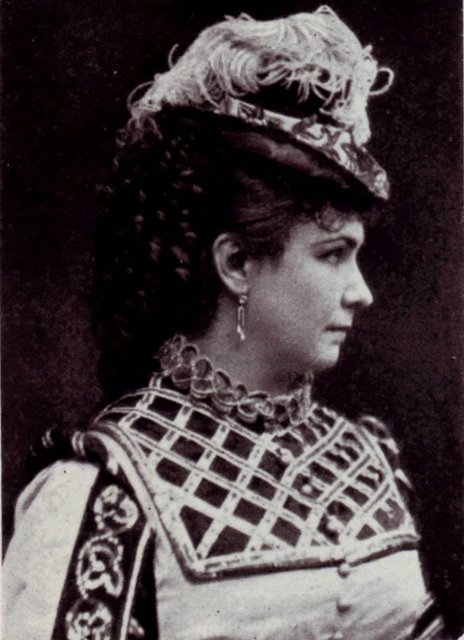 Photograph of the Austrian opera singer Marie Geistinger in the role of Bulotte in Offenbach's Barbe bleue in 1866 - cropped version